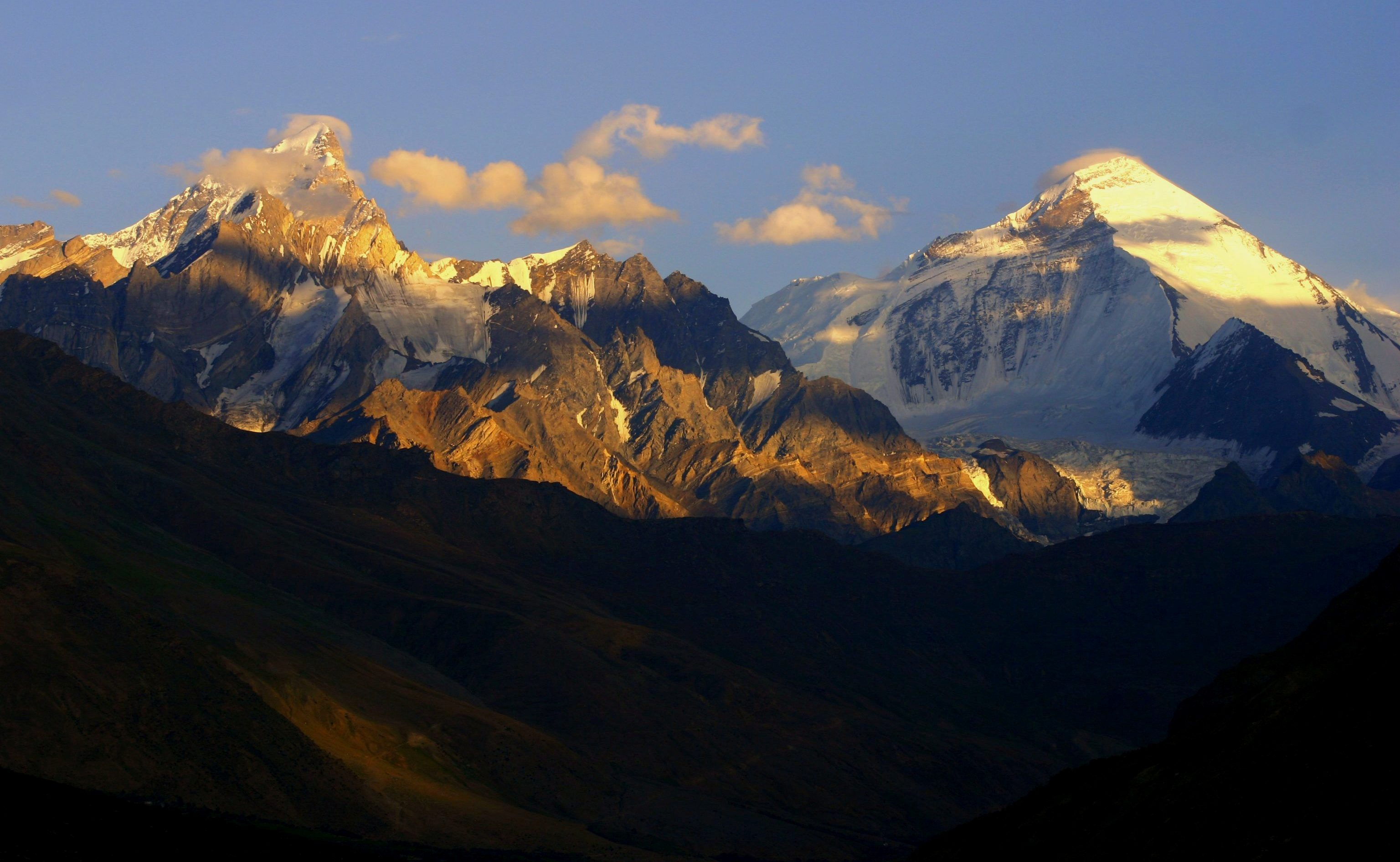 Sunset on Nun Kun Massif in Zanskar National Park (Ladakh-India).One of the remote areas of India where Temperature drops below -50 Degree C in winters